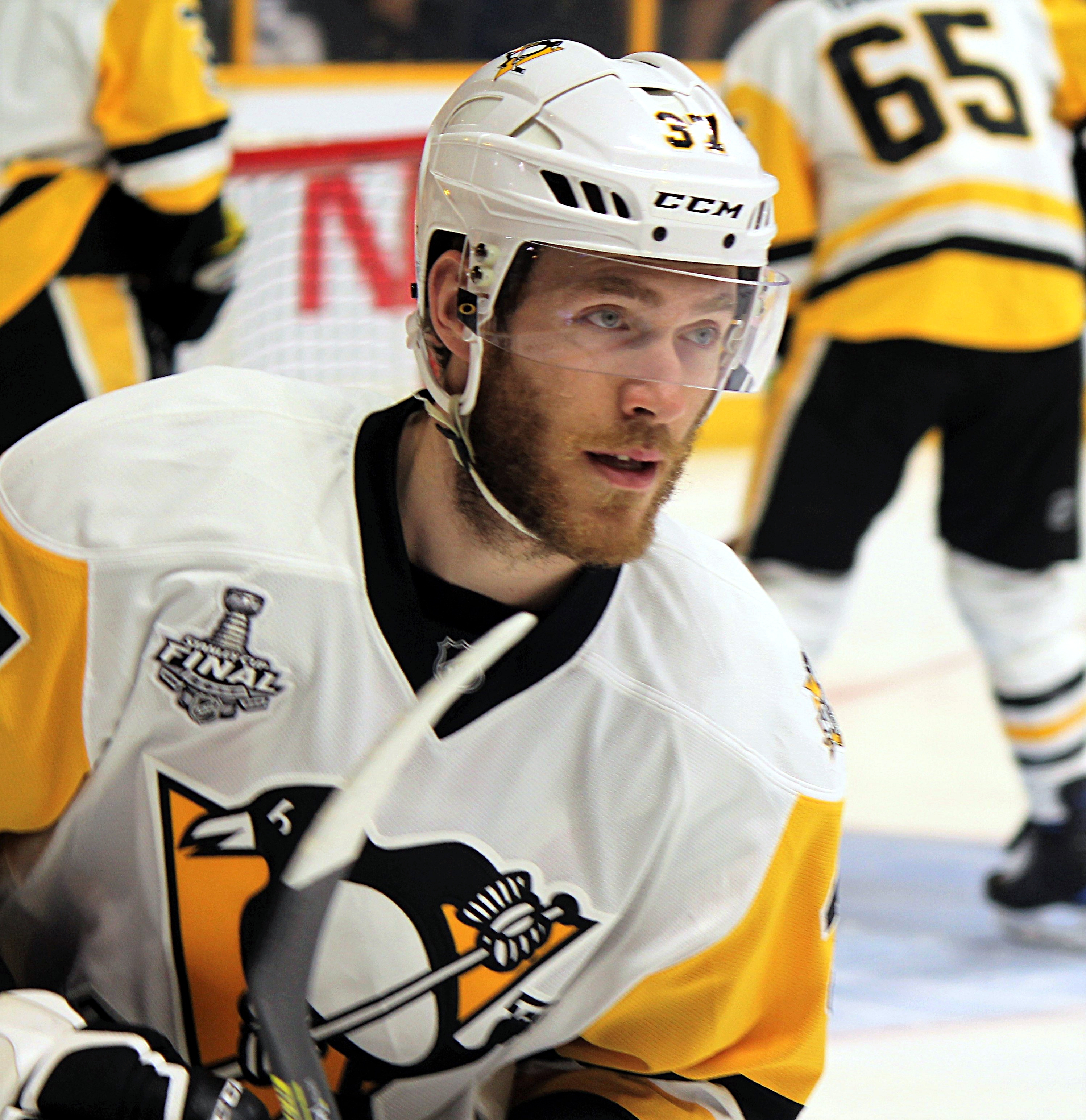 Pittsburgh Penguins forward Carter Rowney warms up before game 4 of the Stanley Cup Final against the Predators, June 5, 2017, at Bridgestone Arena in Nashville, TN.